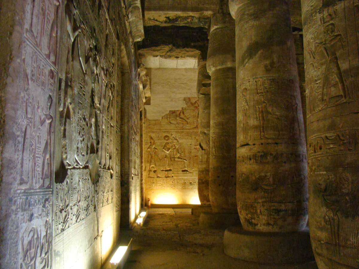 Abydos temple of Sety